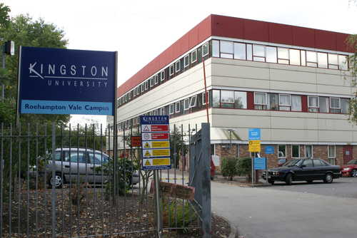 Roehampton Vale campus, Kingston University